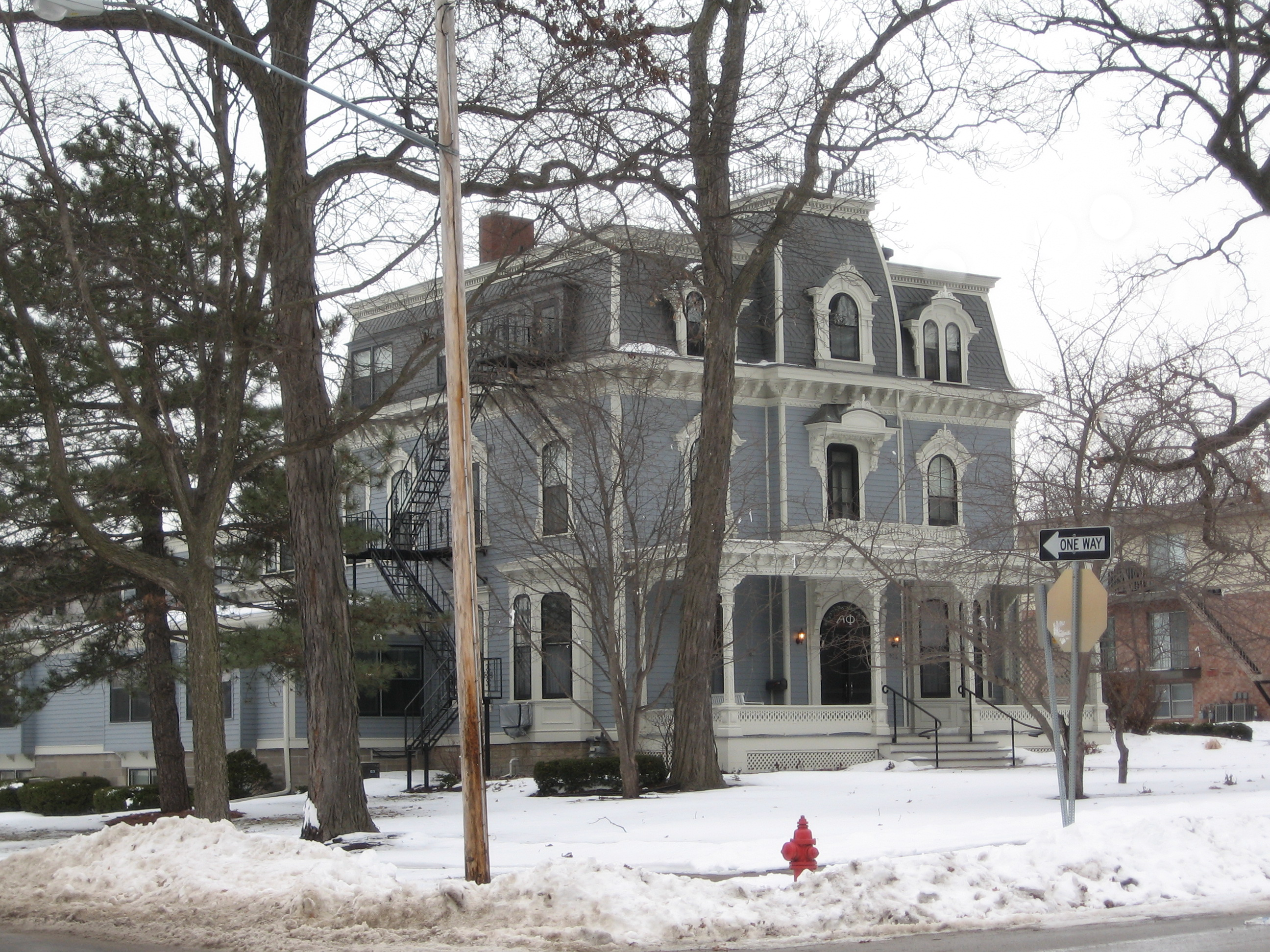 Carson House, 906 E. College, Iowa City. On the National Register of Historic Places; now the Alpha Phi Sorority house. I am having trouble getting the correct photo to show, the Carson house is blue, the Linsay House is green.